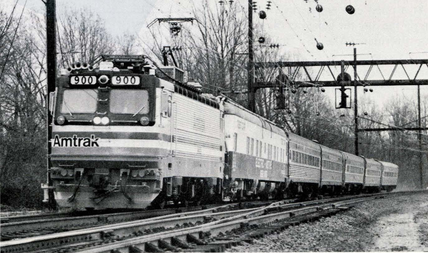 Brand-new AEM-7 locomotive #900 heads a test train (General Motors test car plus 5 passenger cars) in January 1980